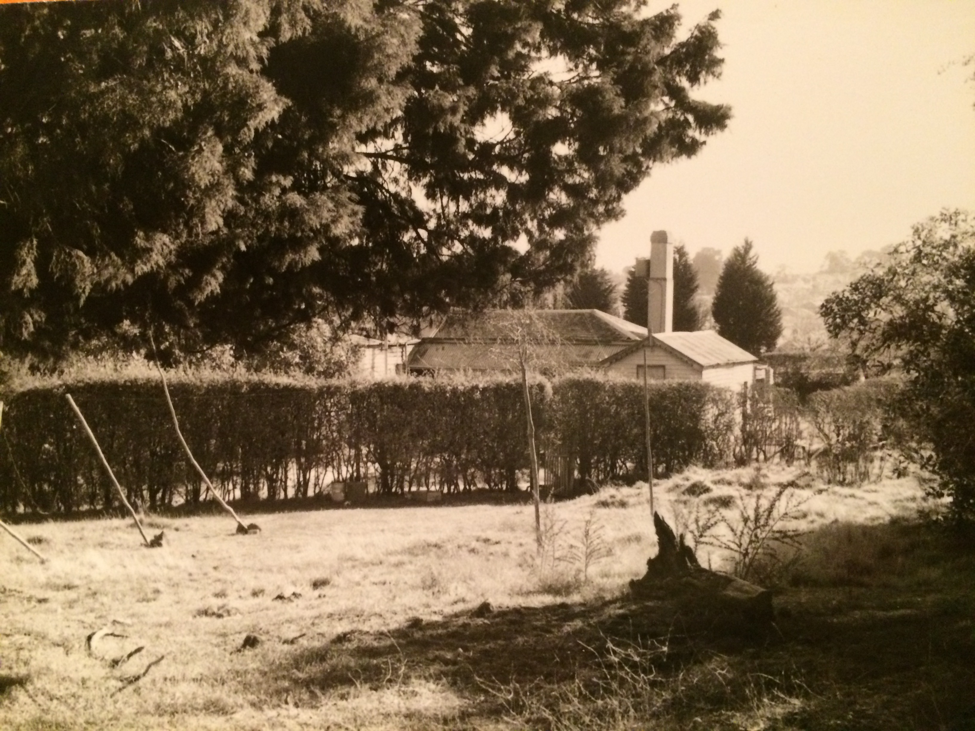 Laneway of The Grange, Soldiers Hill, Ballarat, Victoria, Australia accessing Gregory Street